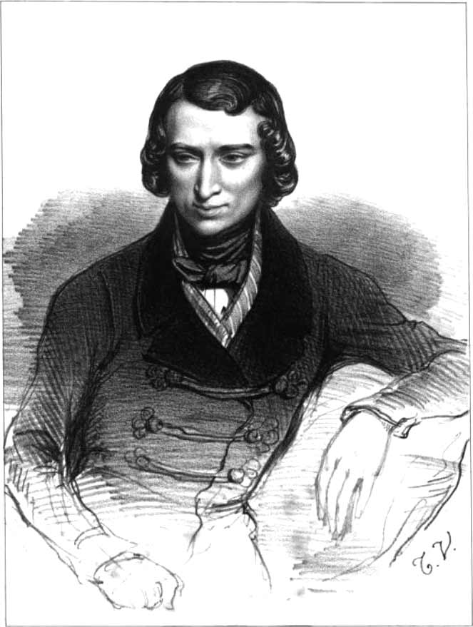 Drawing of Armand Gouffé (1775-1845), French songwriter